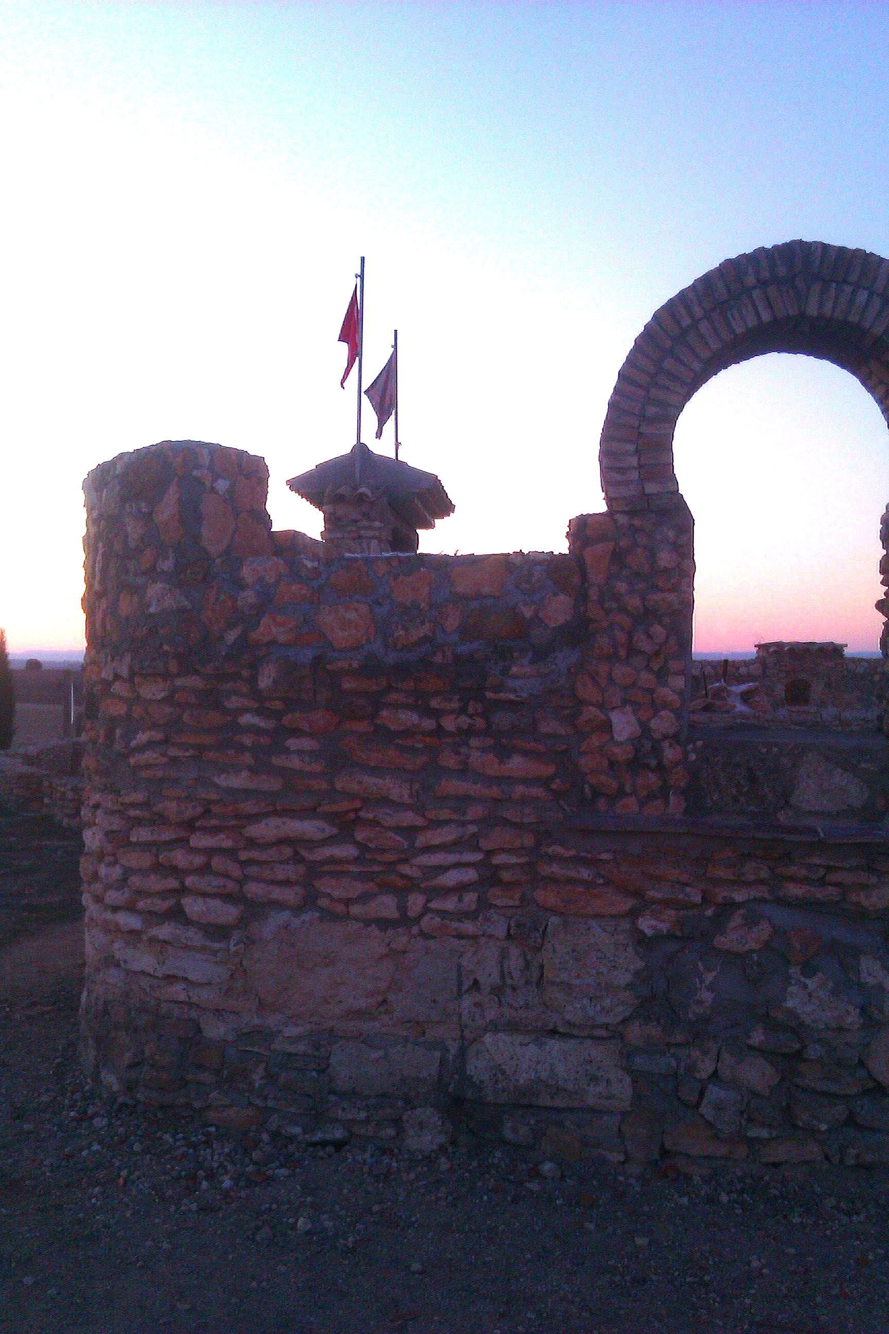 Odin's Temple from Odinist-Asatru Community of Spain